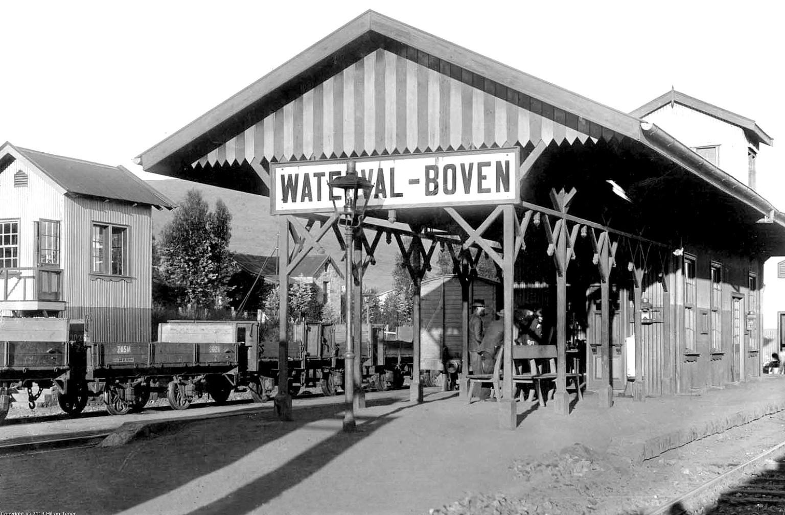 Waterval-Boven Station